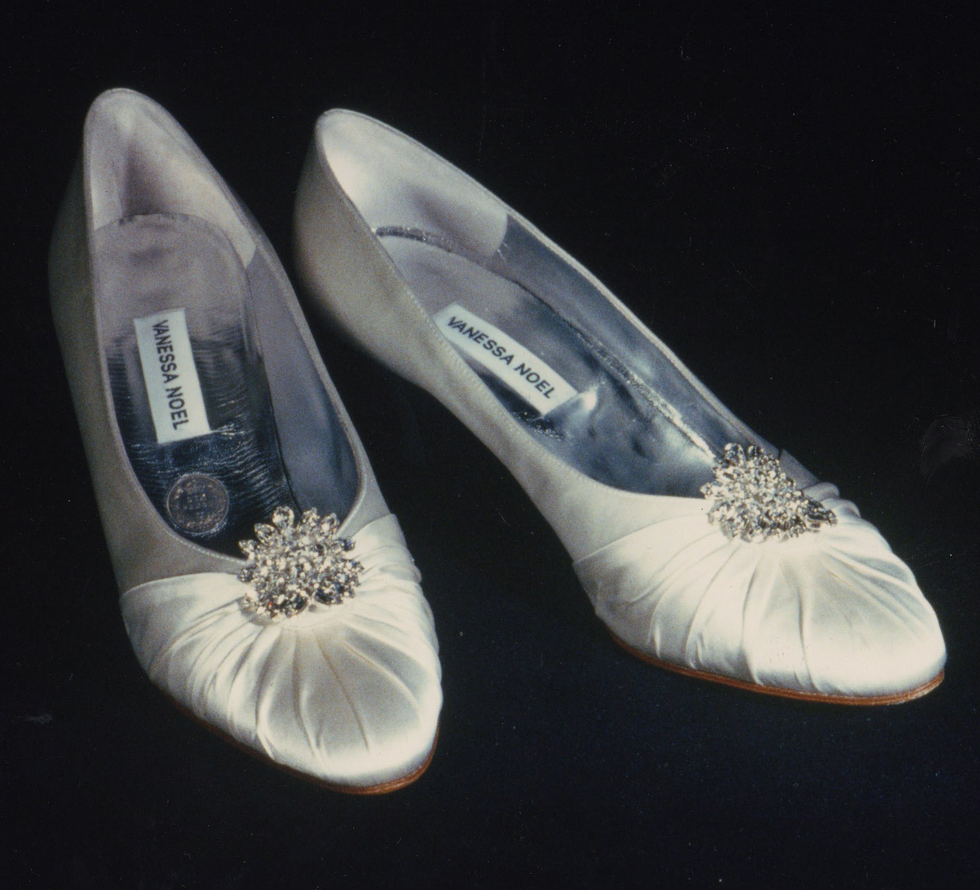 Mariah Carey's shoes specially designed by Vanessa Noel for Carey's 1991 wedding. Photo taken by Vanessa Noel.